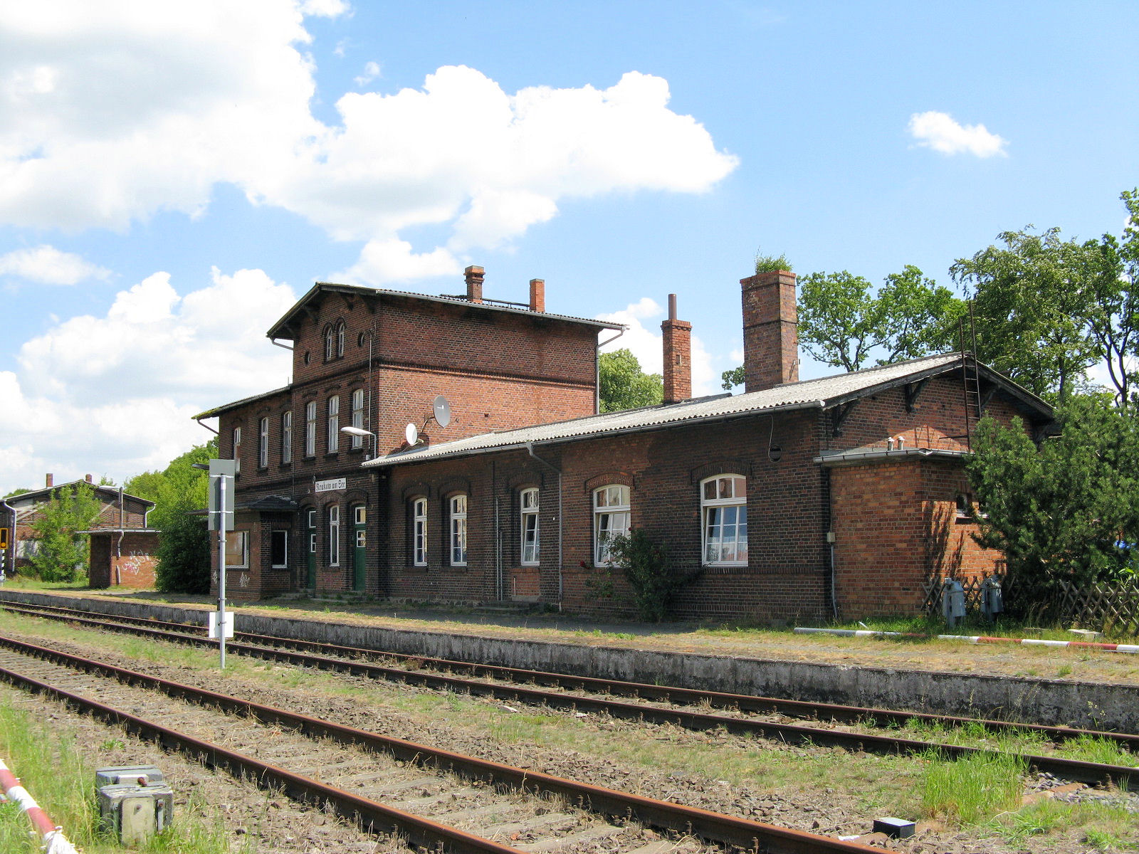 Train station in Krakow am See, disctrict Rostock, Mecklenburg-Vorpommern, Germany